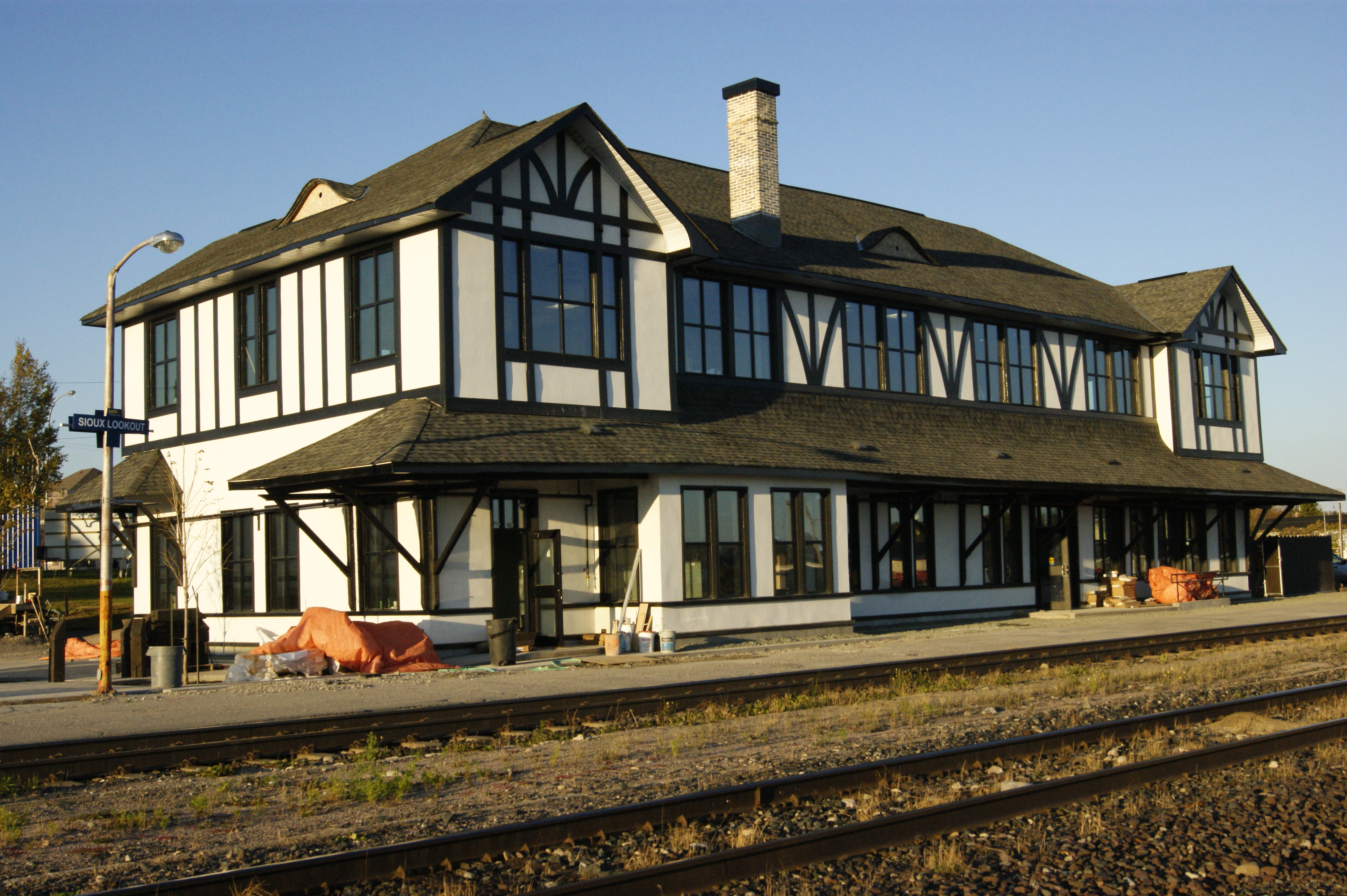 Sioux Lookout train station is undergoing restoration at this current time. It has been a staple landmark in this little northern Ontario community